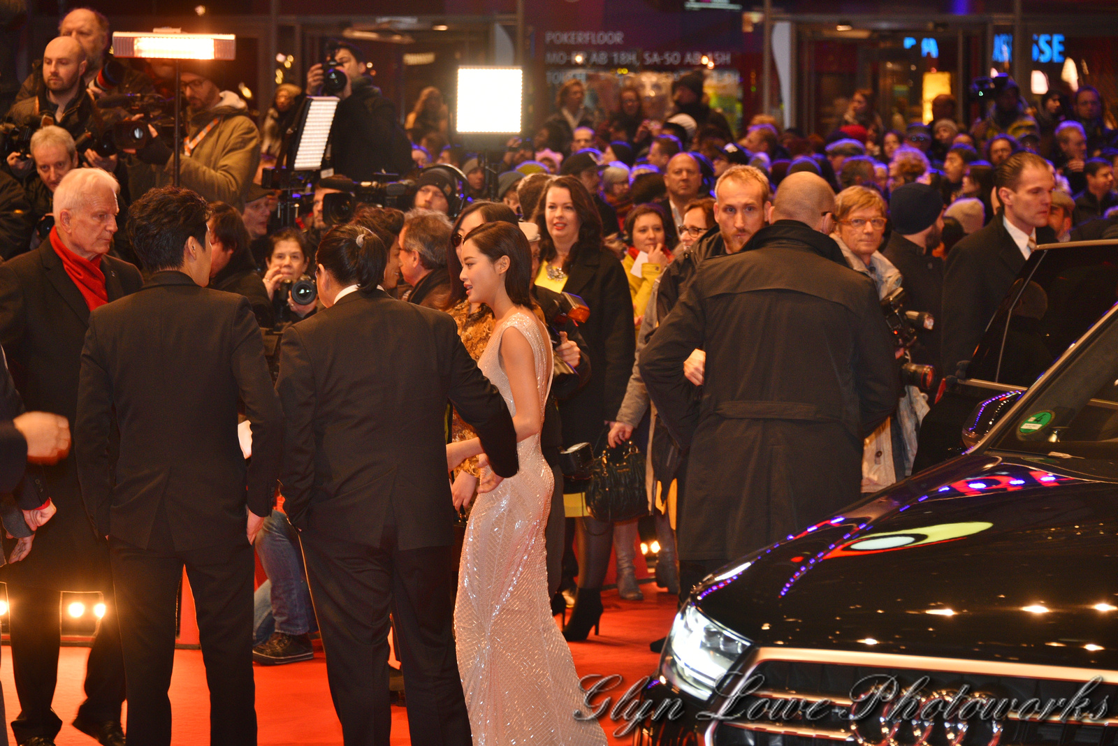 'Hail, Caesar!' Premiere during the 66th Berlinale International Film Festival on February 11, 2016 in Berlin, Germany. February in Berlin is all about film: international stars on the red carpet, enthusiastic fans from around the world – and, above all, some great films. Around 400 films are shown at the Berlinale and tickets are available for everyone, because the Berlinale is the world’s largest public film festival. For ten days, the festival features films that inspire, touch and let you discover new worlds. More Photos At